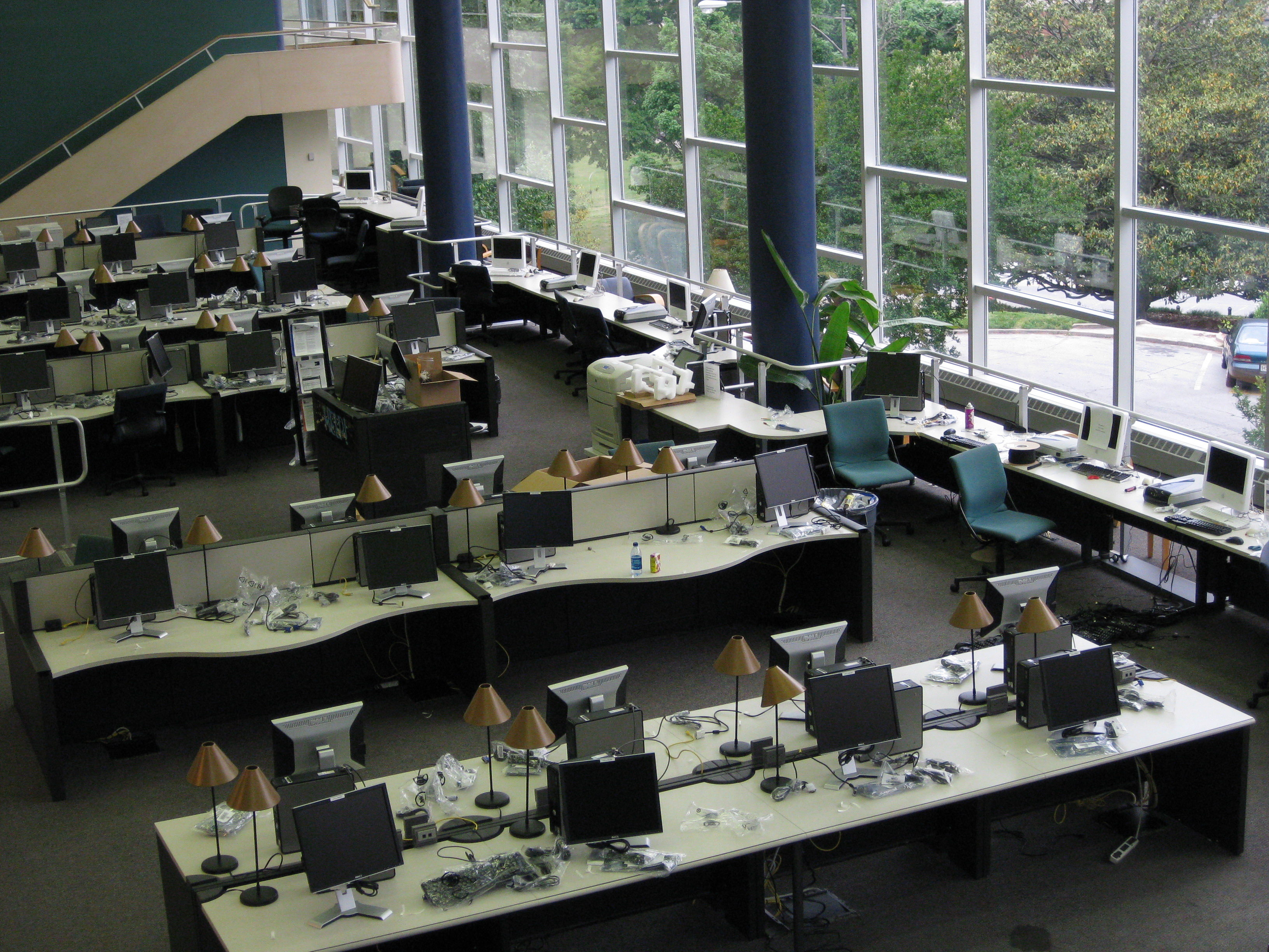 Georgia Tech Library West Common computer cluster